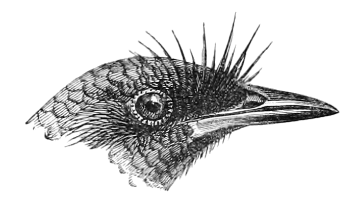 Slaty Bristlefront, head from lateral